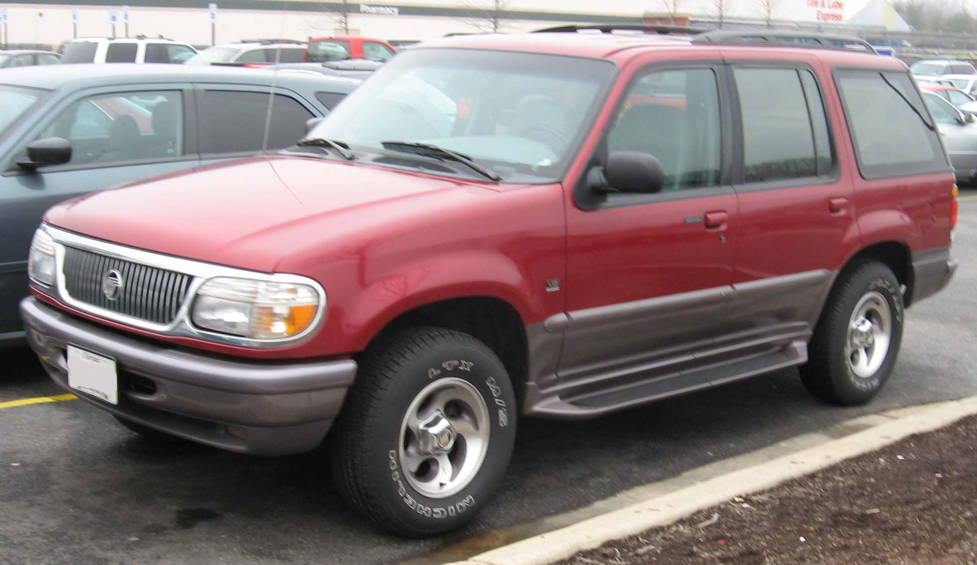 1997 Mercury Mountaineer photographed in USA.